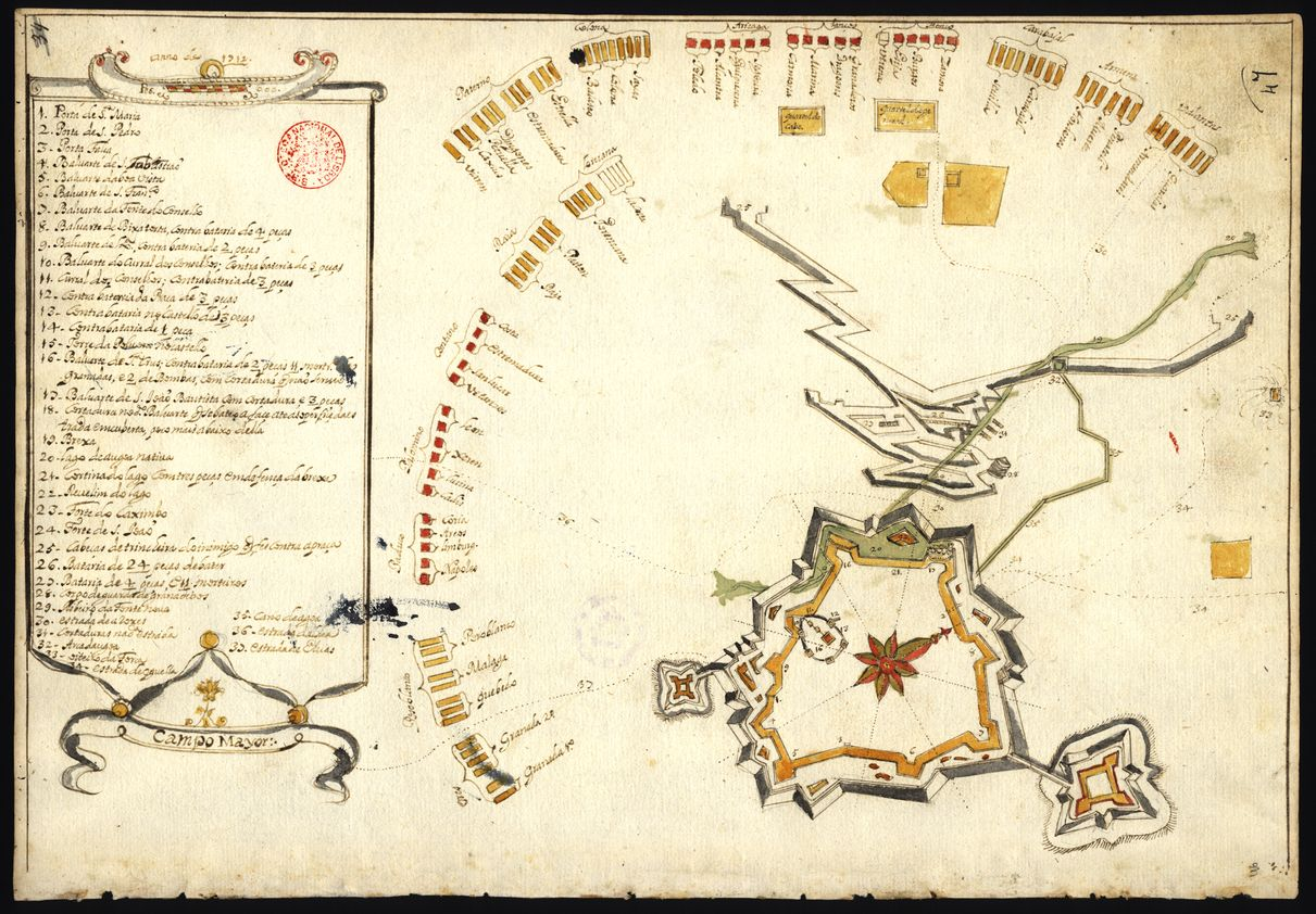 Plan of the siege of Campo Maior (1712) in the Book of various plants of this Kingdom (Portugal) and of Castile [between 1699 and 1743]